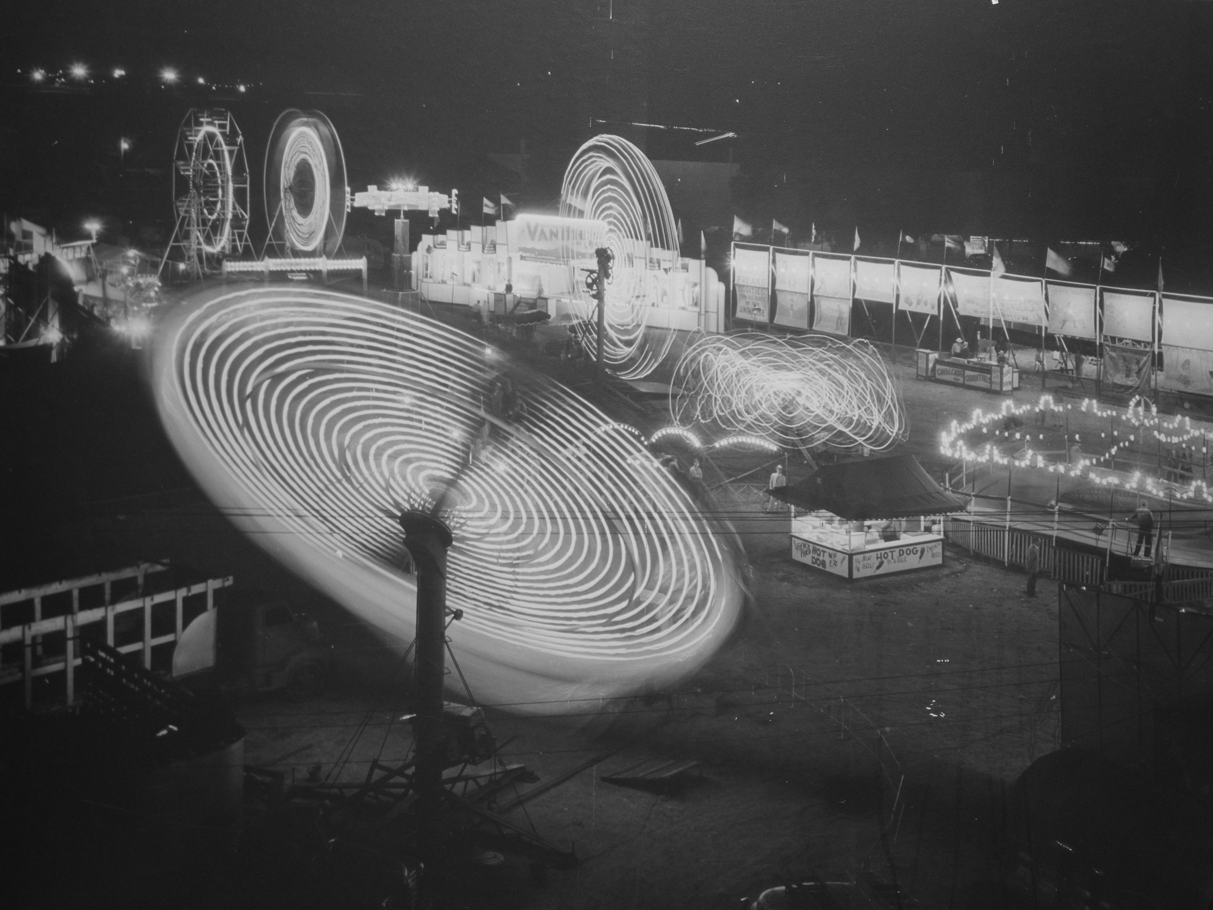 Photograph taken on 2010-02-09 of large format black and white print approximately 46.5 inches wide by 36 inches tall. Photograph indicated "Nebraska State Fair 1950". Also attached was a common "return mail mail label" with the following address: Ralph Fox 1601 Euclid Ave. Lincoln 2, Nebr. The photograph was obtained from a residence just outside of Elgin, Nebraska.